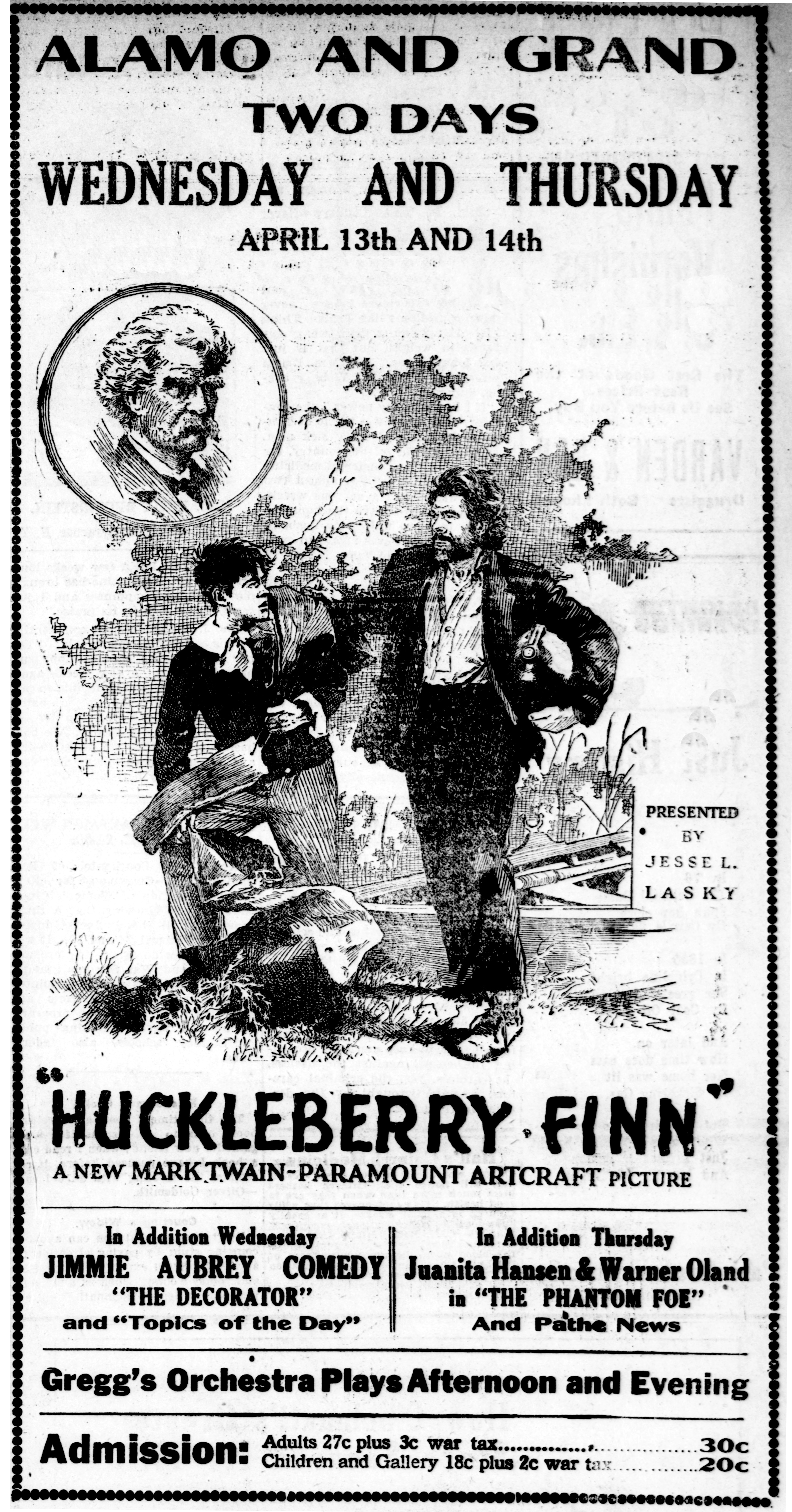 Huckleberry Finn is a surviving dramatic rural film from 1920, based on Mark Twain's classic novel. It was produced by Famous Players-Lasky and distributed through Paramount Pictures. This is a newspaper advertisement for the film.